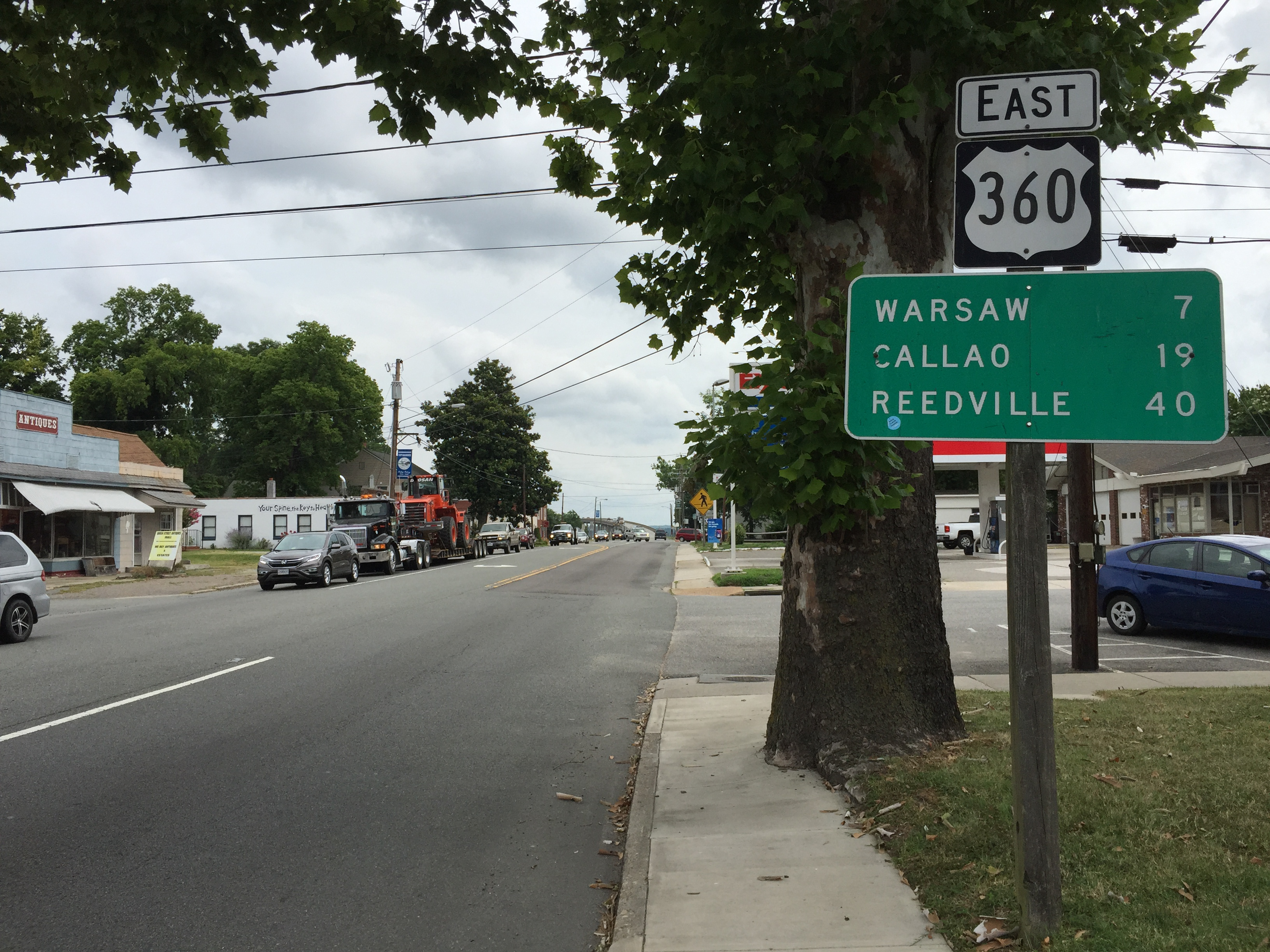 View east along U.S. Route 360 (Queen Street) at Cross Street in Tappahannock, Essex County, Virginia